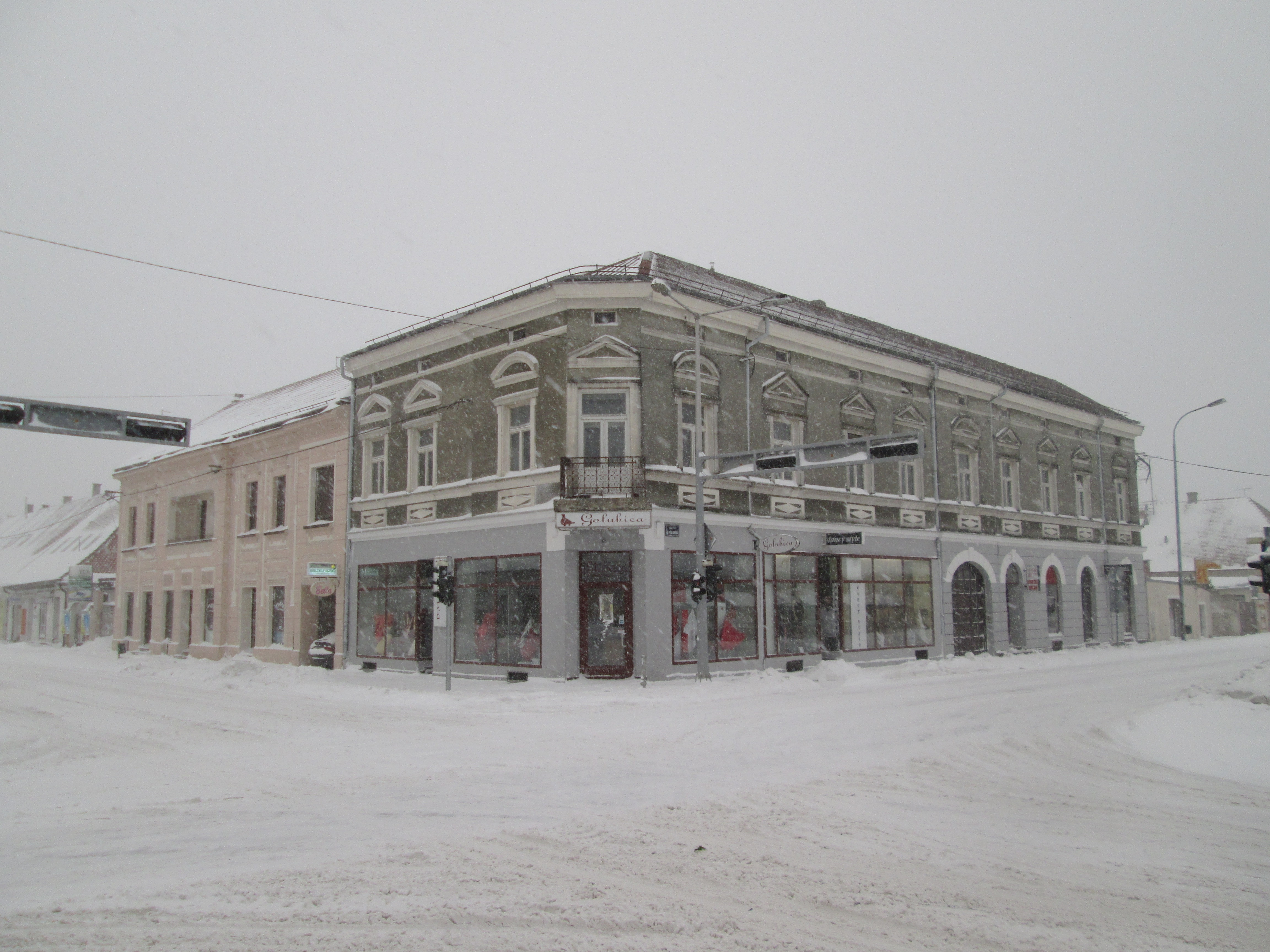 City of Bjelovar, Croatia